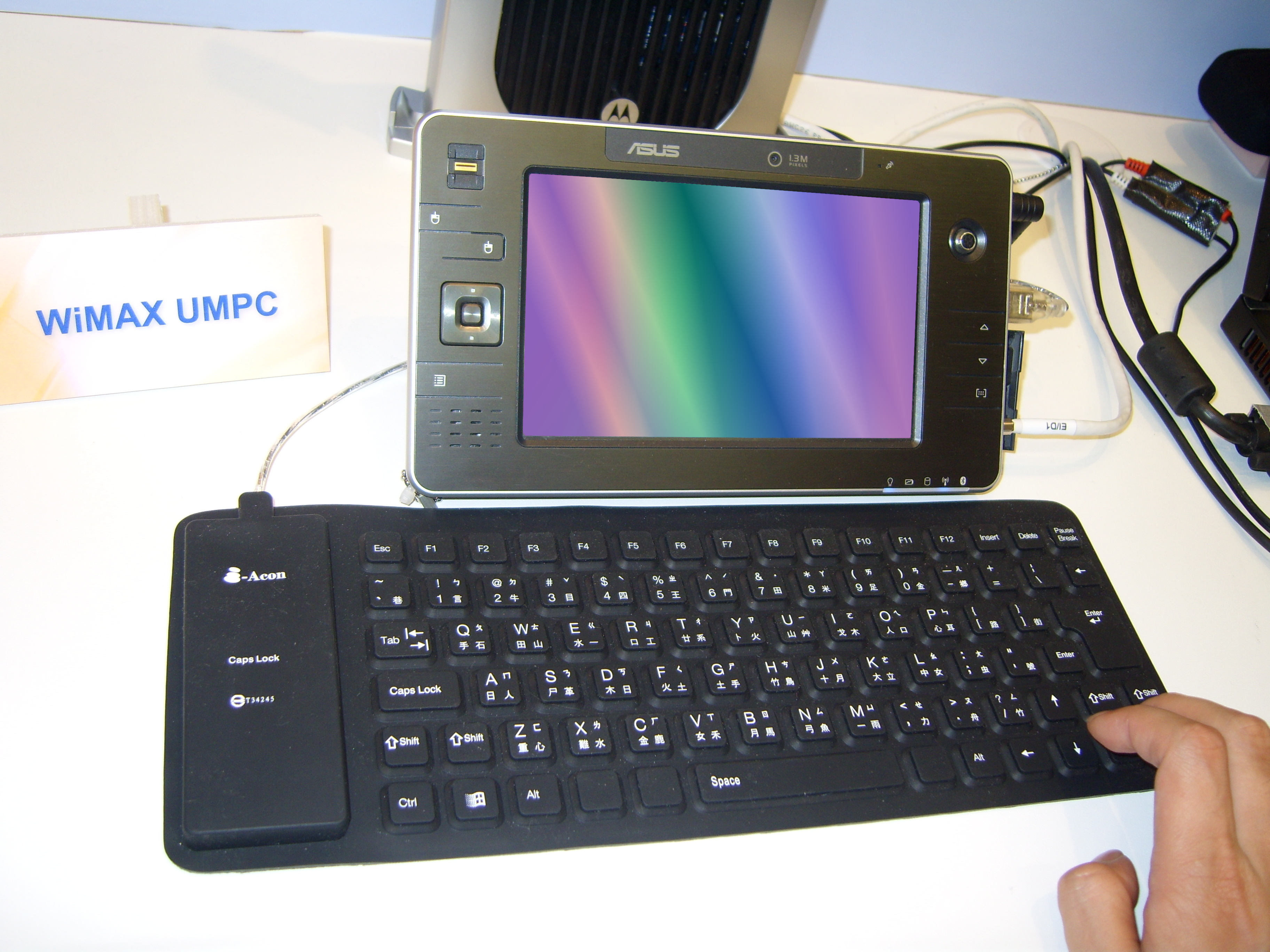 2007 WiMAX Forum Taipei Showcase: ASUS R50A Mobile Computer.